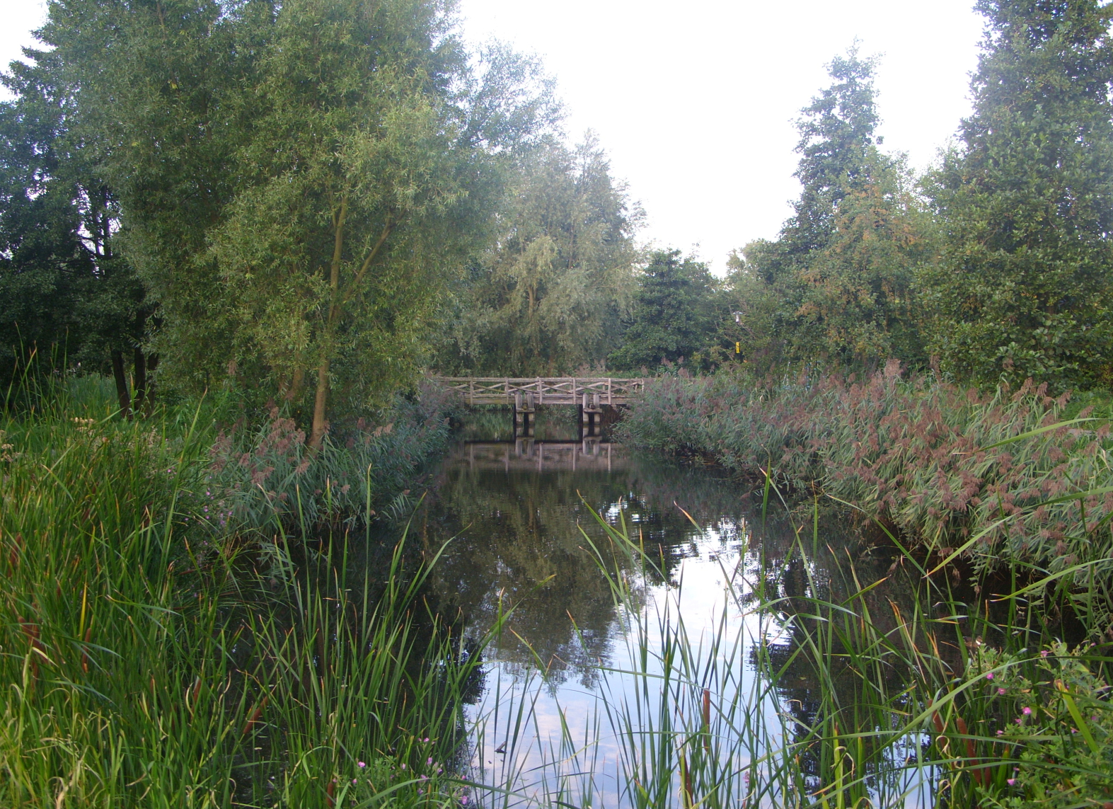 Reconstruction of Fossa Corbulonis with roman bridge at Rietvink, Leidschendam, The Netherlands